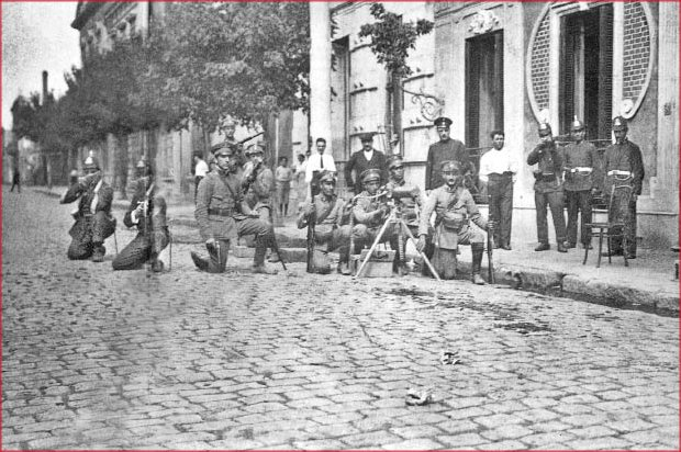 Photograph taken during the Semana Trágica in Argentina. Published in 1919 by Revista Caras y Caretas.